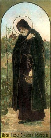 Icon of Nikolaj Svjatosha